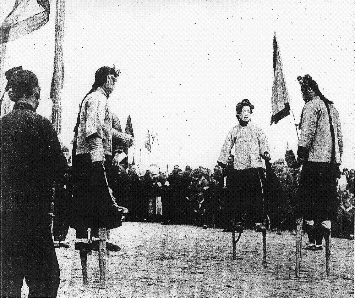 Beginning of the popular High Heel Folk Dance with lively accompaniment/Japan-China friendship sports festival (Linfen, Shanxi Province, China)